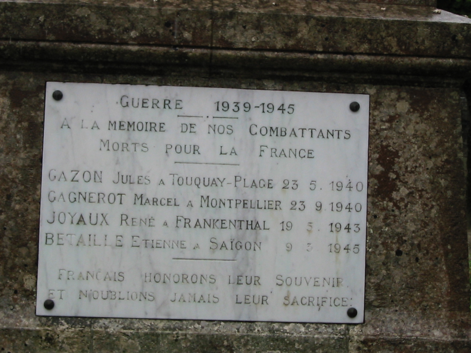 First and second World War Monument